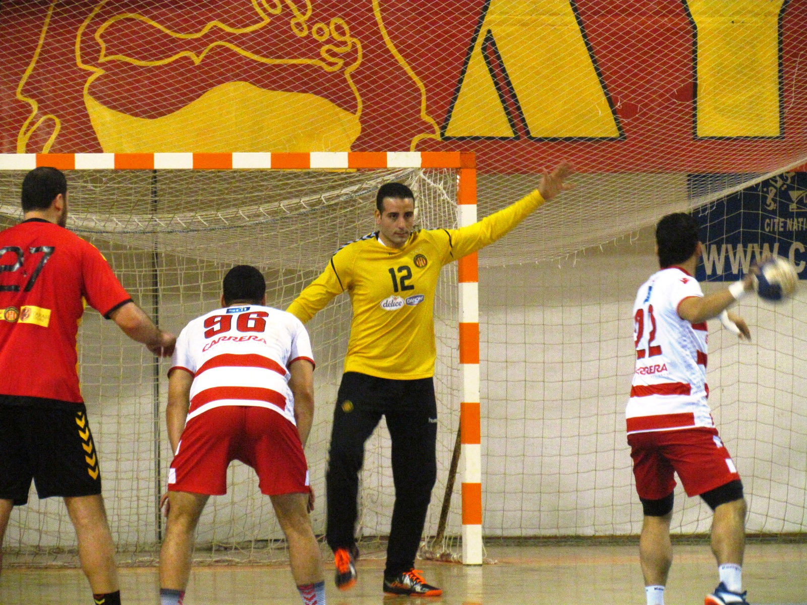 This is an image with the theme "Play" from: Tunisia